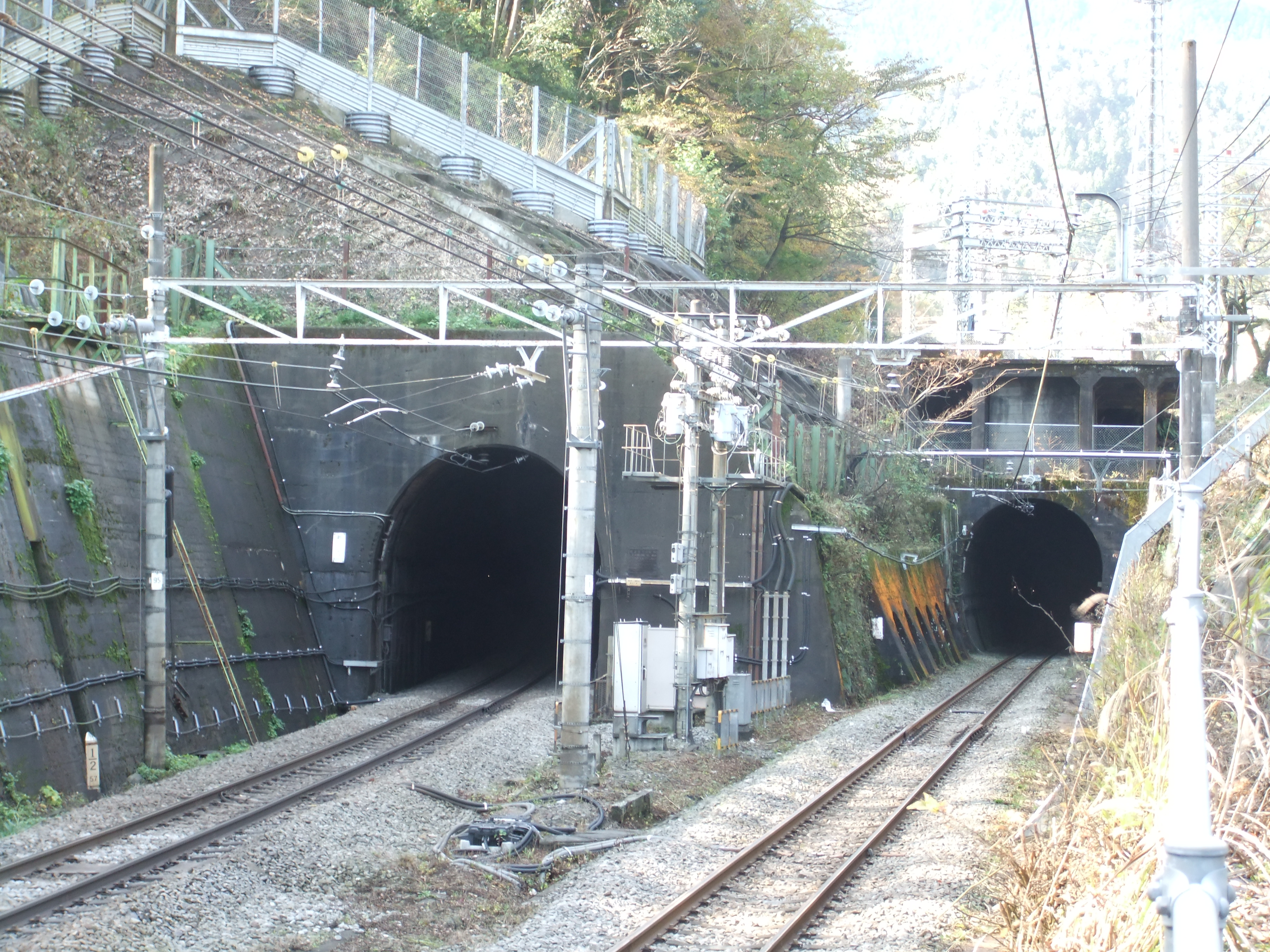 Takao side of Kobotoke tunnel (Right), Sin-kobotoke tunnel (Left) on JR Chūō Main Line